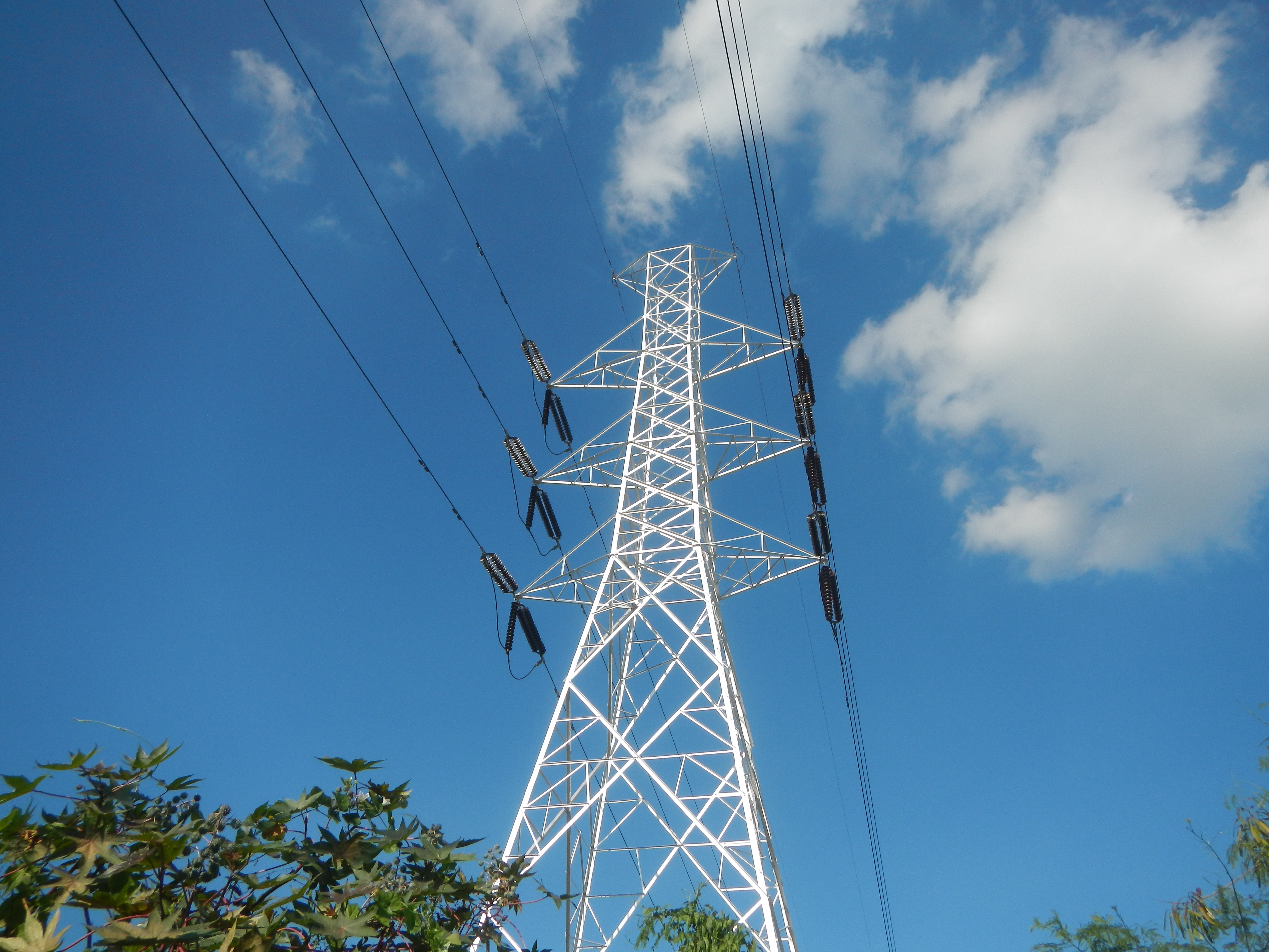 Robinsons Supermarket (Saint Dominic Village, San Agustin, City of San Fernando, Pampanga) High-voltage overhead power lines in the Philippines Barangay San Agustin 15°2'53"N 120°40'0"E beside Dolores 15°2'21"N 120°40'55"E Juliana 15°2'6"N 120°41'25"E San Jose 15°2'23"N 120°41'58"E Santo Rosario 15°8'46"N 120°50'43"E Del Pilar 15°1'47"N 120°42'0"E San Fernando, Pampanga (accessed from and along MacArthur Highway (City of San Fernando, Pampanga section) of the MacArthur Highway or Manila North Road (San Fernando, Pampanga), in Radial Road 9 interconnecting with the Olongapo-Gapan Road Note: Judge Florentino Floro, the owner, to repeat, Donor Florentino Floro of all these photos hereby donate gratuitously, freely and unconditionally all these photos to and for Wikimedia Commons, exclusively, for public use of the public domain, and again without any condition whatsoever).